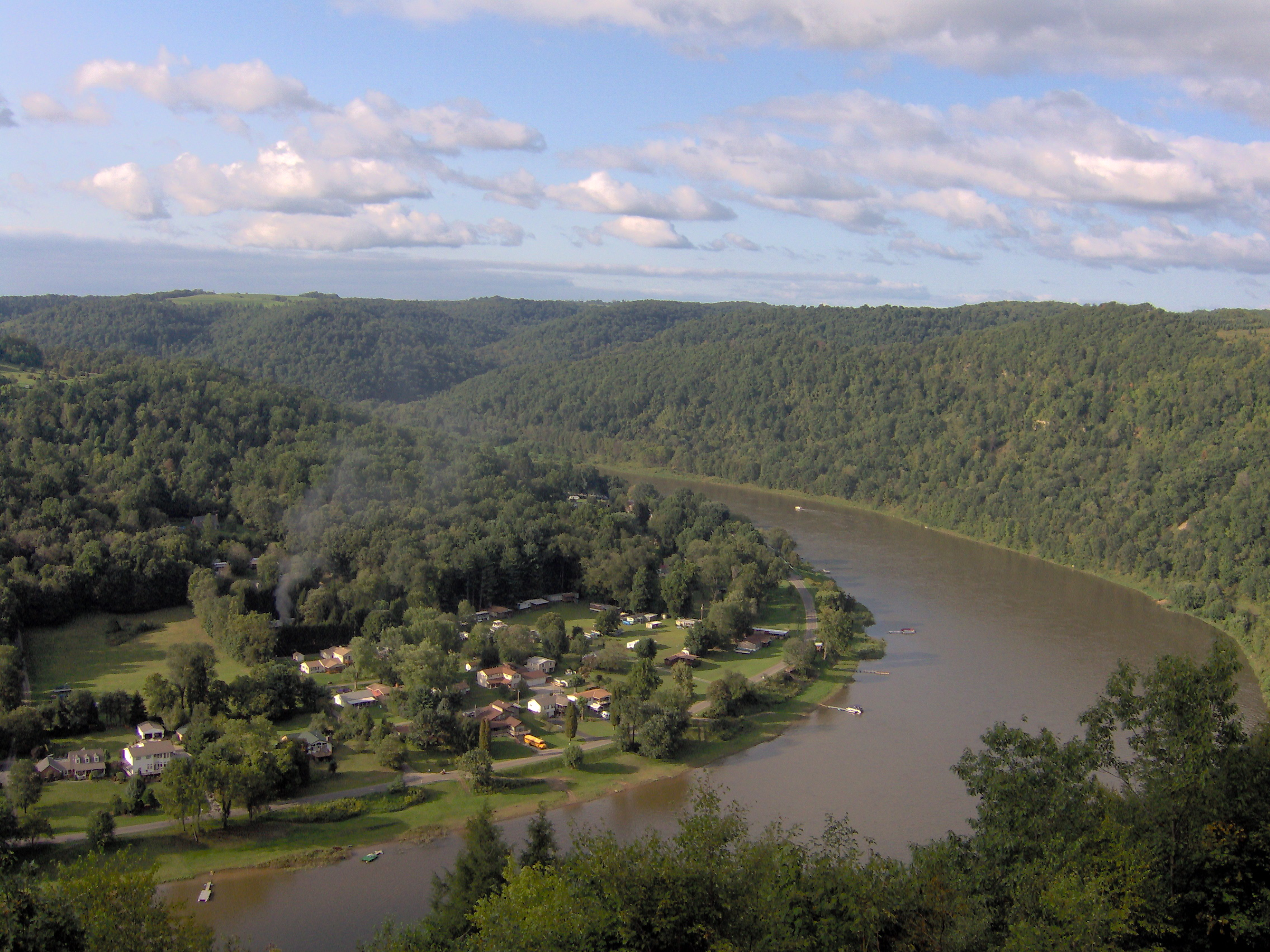 View of the Allegheny River on the Armstrong-Clarion county line, near East Brady, Pennsylvania Picture taken by Nyttend on 16 September 2006.